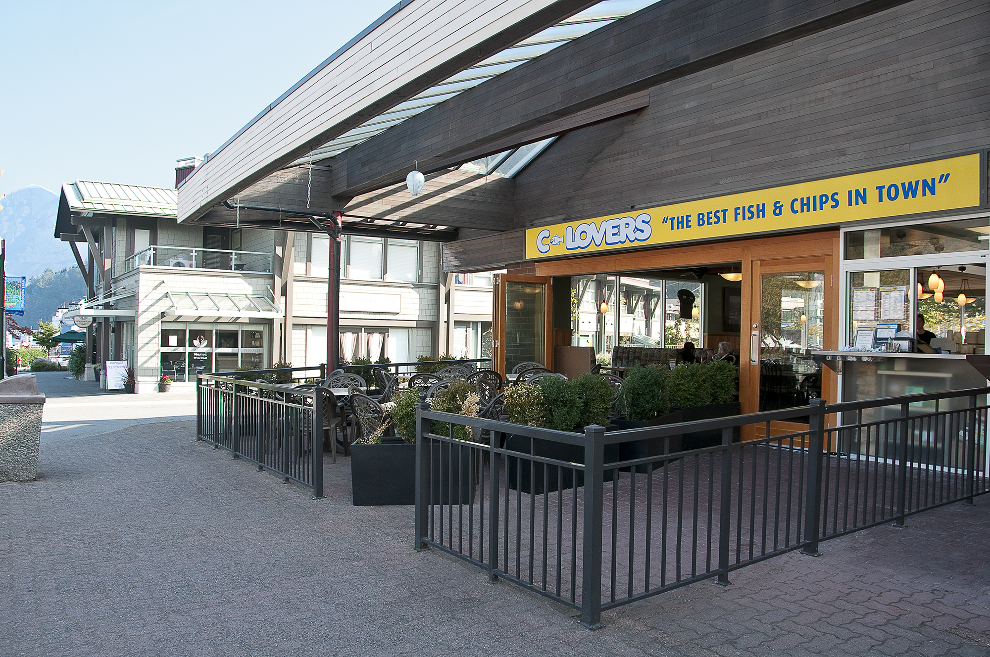 Fish and Chips Restaurant